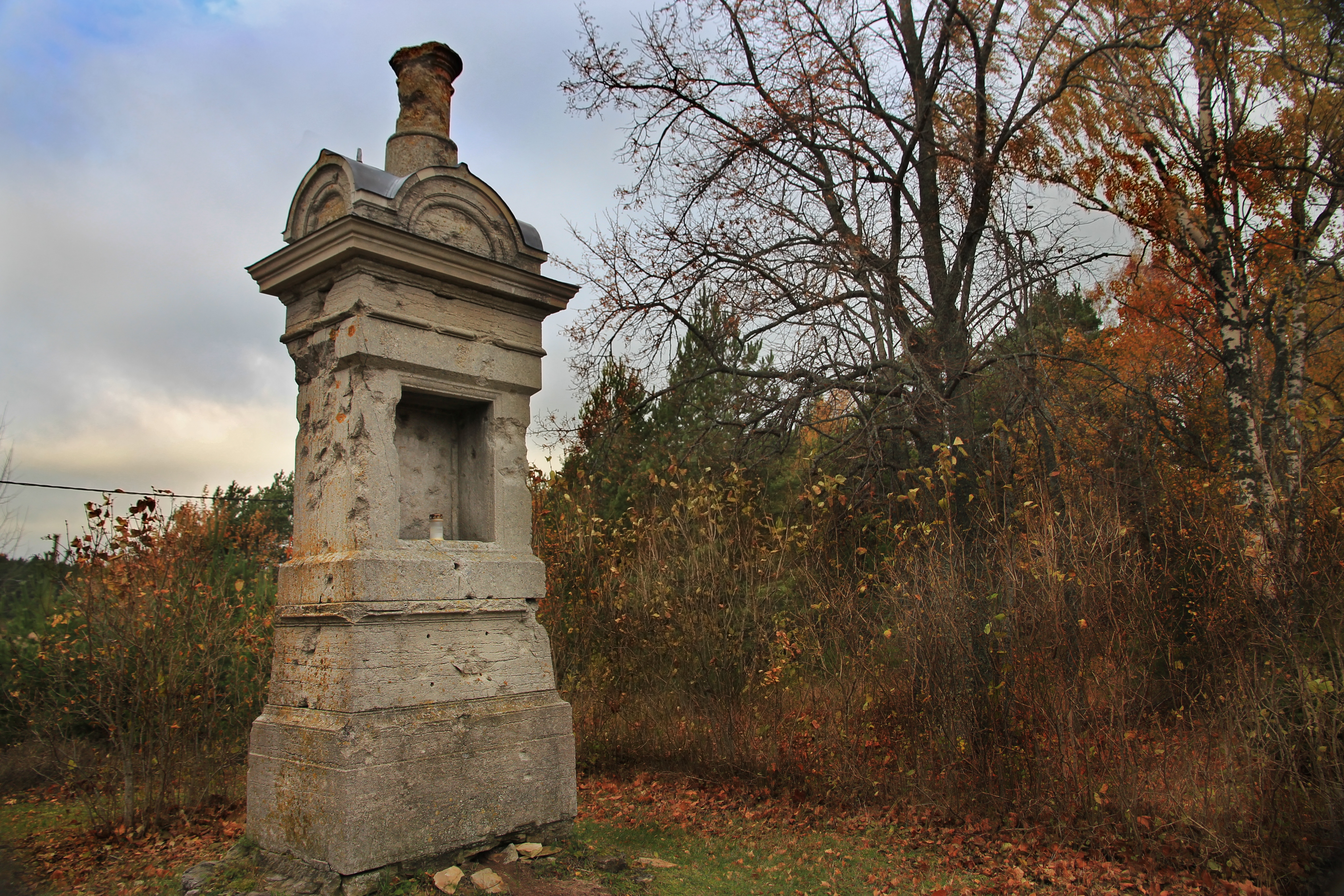 Estonia.Pullapää.Statue dedicated to the Russian Emperor Alexander III